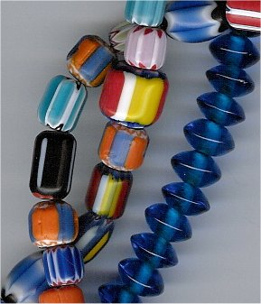 Chevron bead and Indian glass bead strings